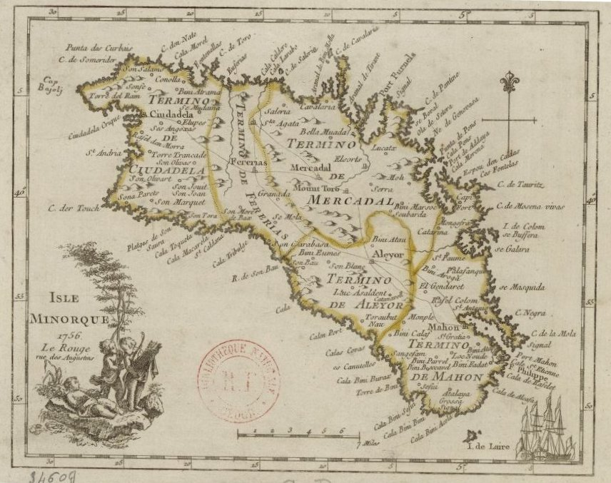 Map of the island dated 1756, with its main cities and ports.